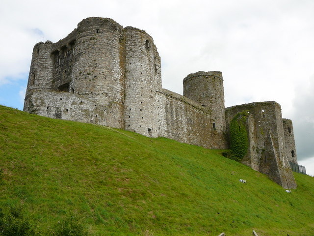 Kidwelly Castle from Gwendraeth Fach